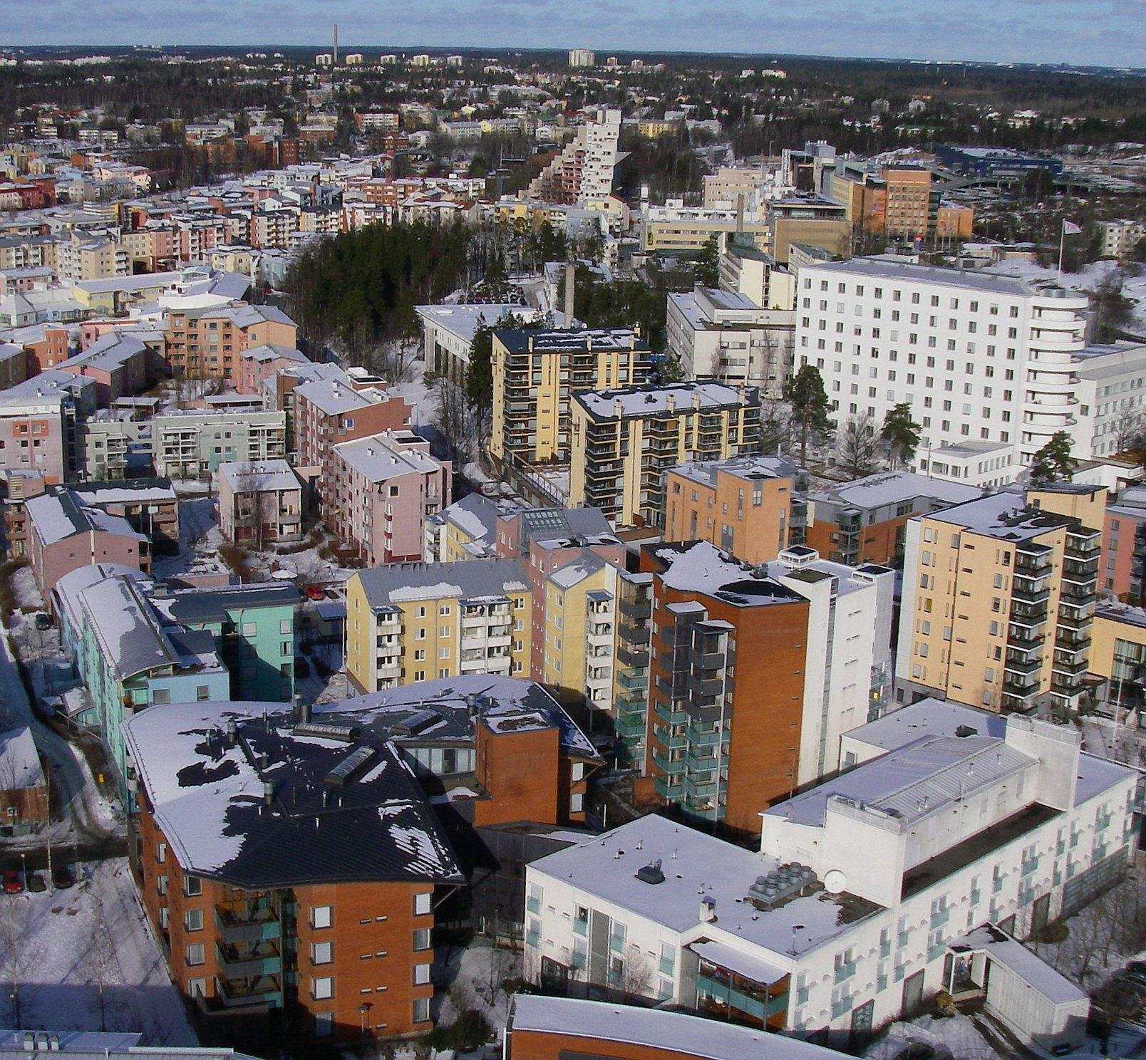 Pikku-Huopalahti in Helsinki from air